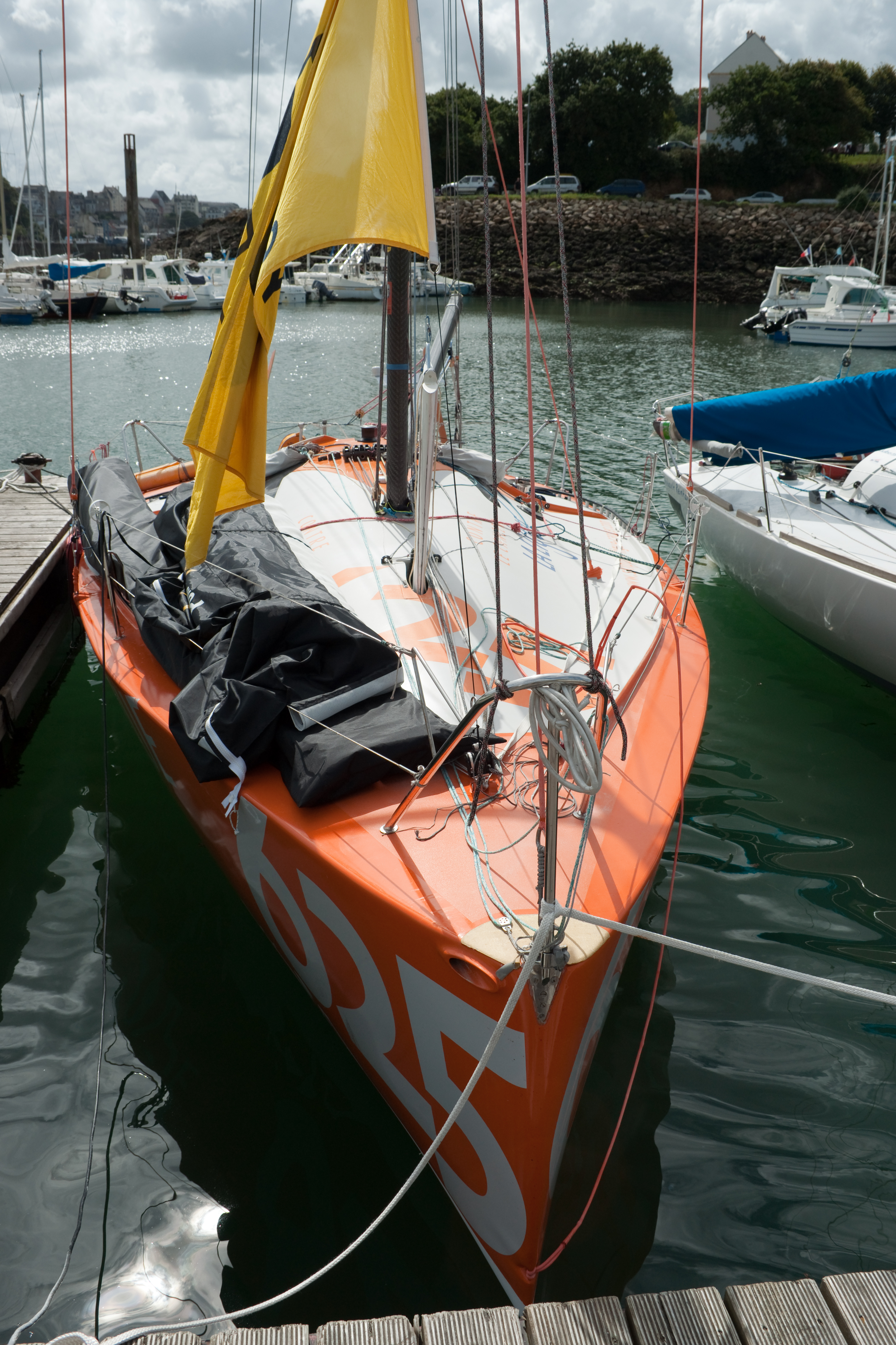 6.50 Classe Mini (prototype plan Canivenc)